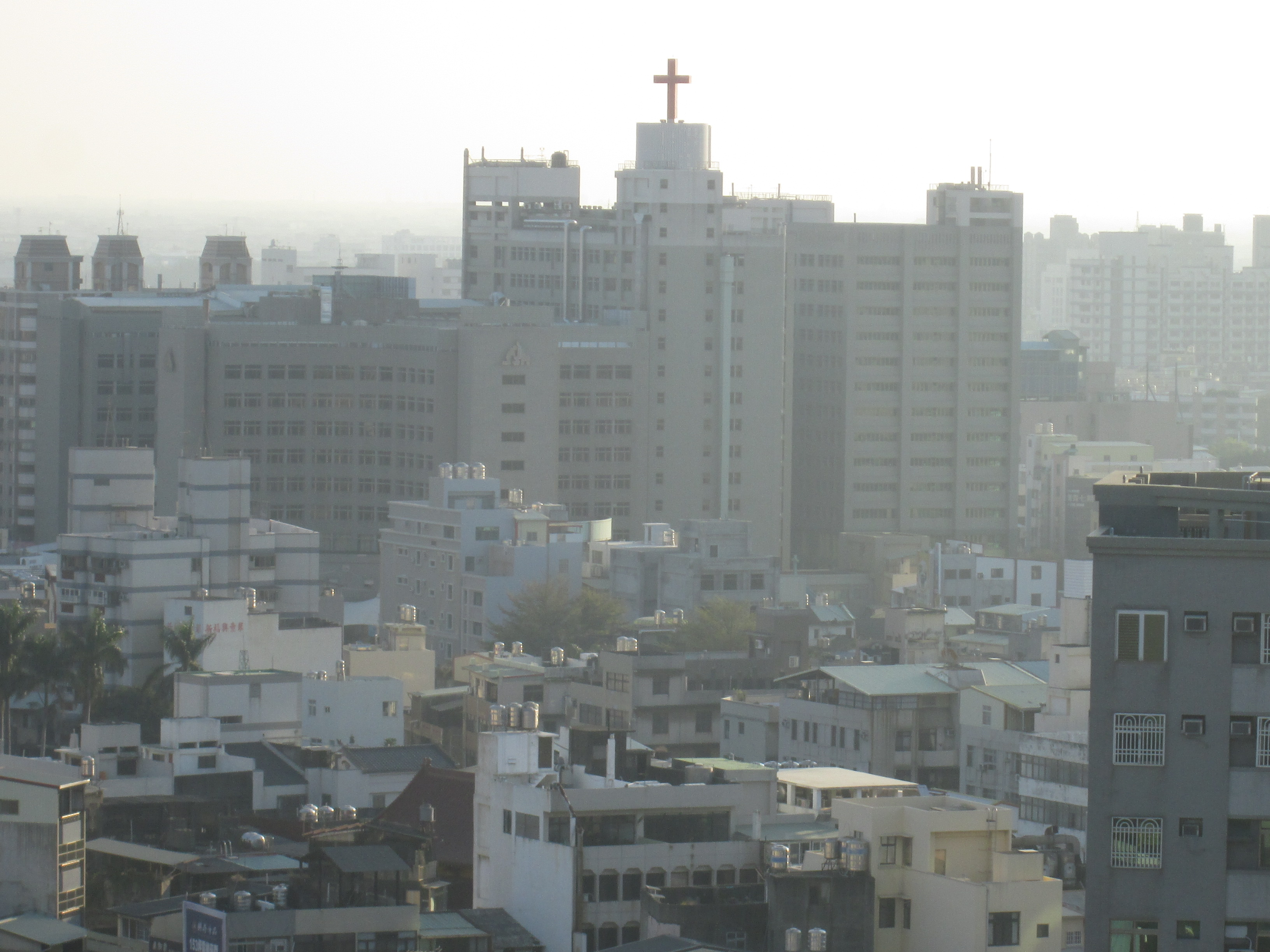 Changhua Christian Hospital viewed from Bagua Mountain.